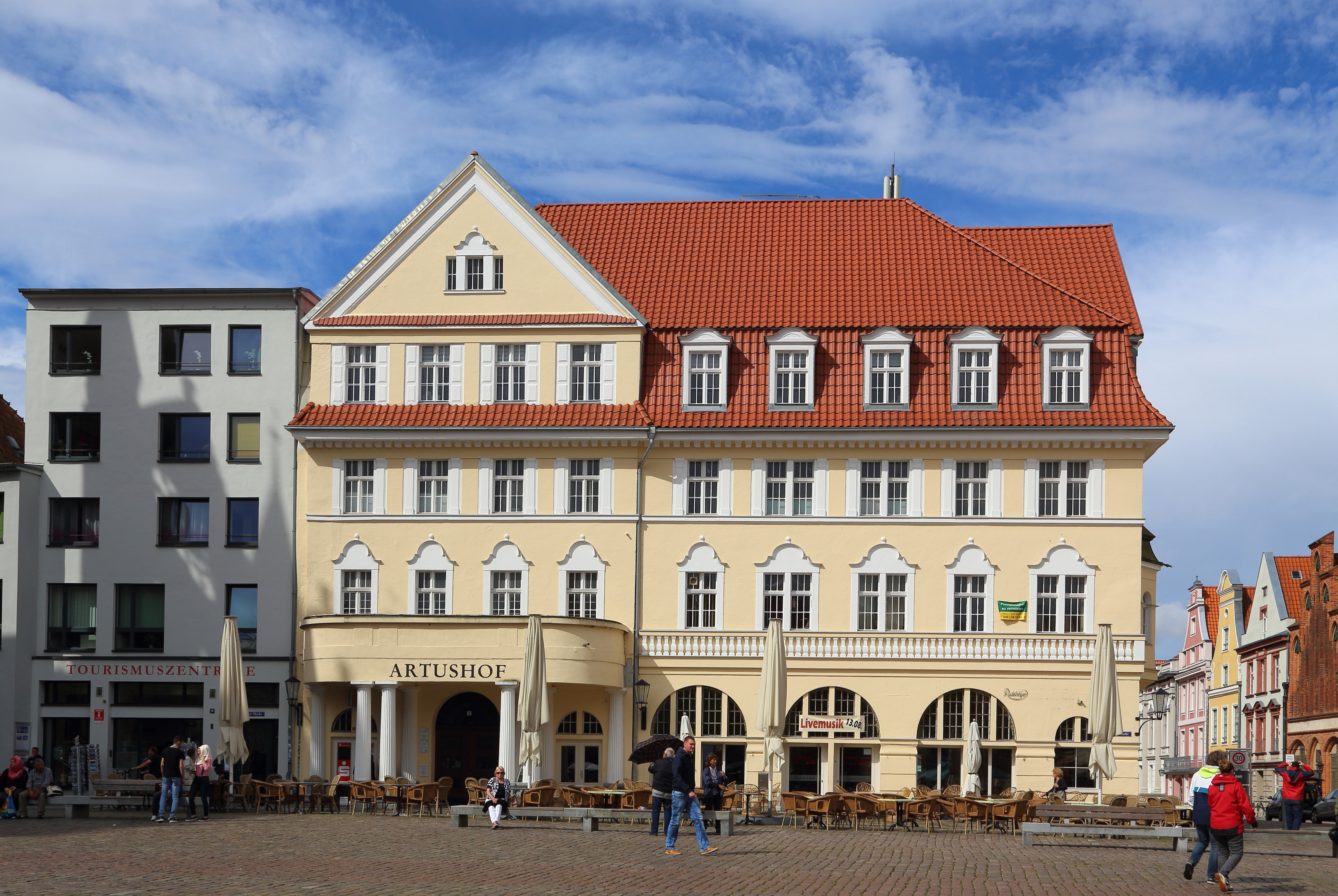 The restaurant Artushof at the Old Market Square (Alter Markt) in Stralsund, Landkreis Vorpommern-Rügen, Mecklenburg-Vorpommern, Germany.